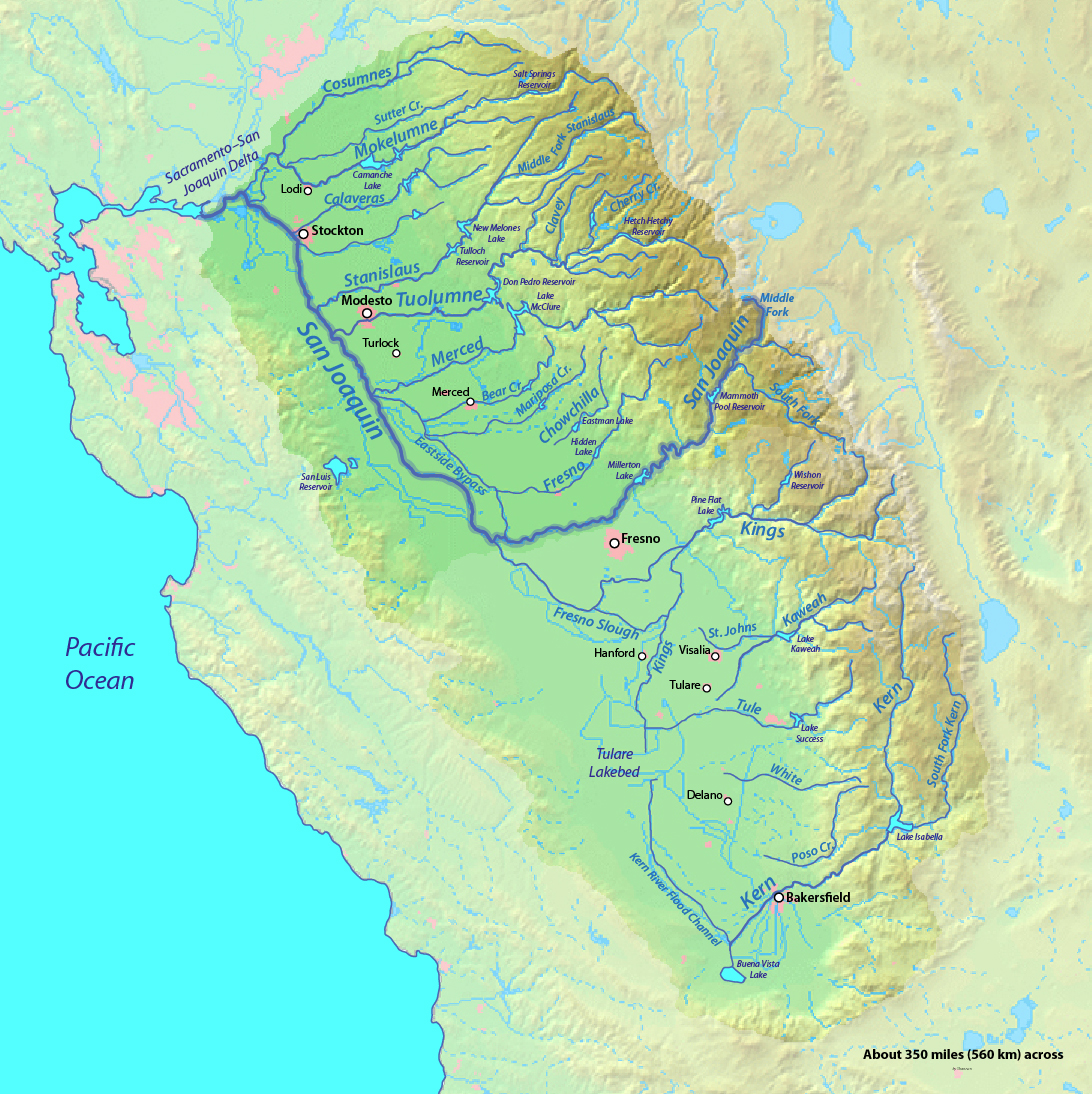 Map of the San Joaquin River watershed, which drains most of central inland California into the Pacific